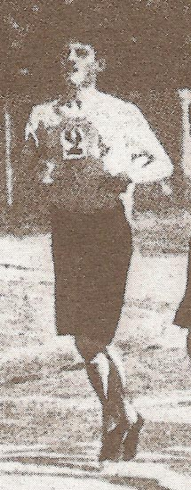 Emile Champion, medalwinner at the 1900 Olympic Games in the marathon run photography, adapted reproduction, no restrictions on use